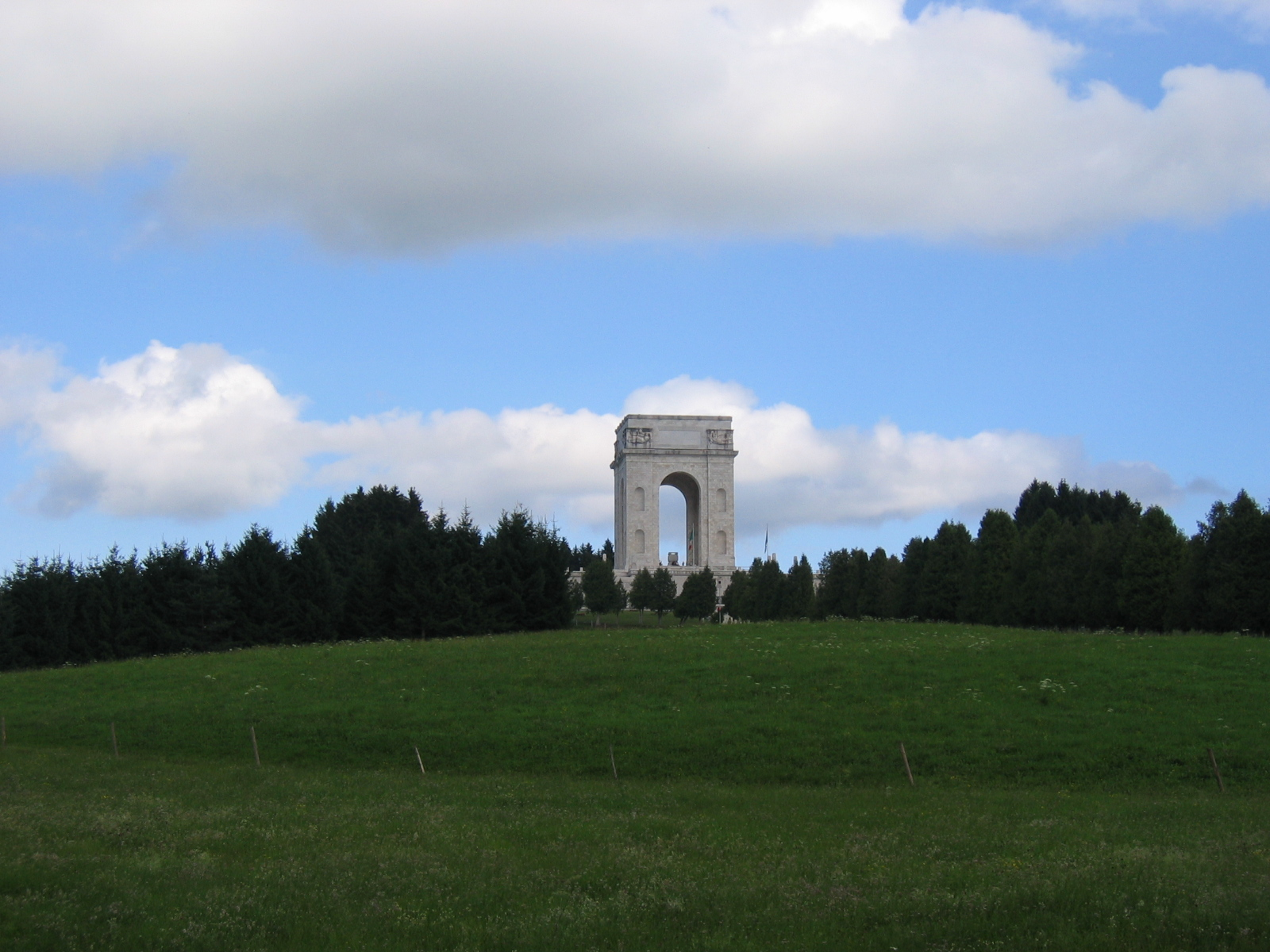 World War I Memorial, Asiago (Italy)